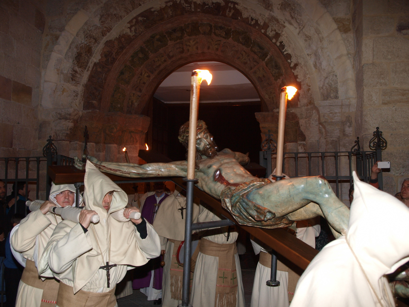 Parade of the religious brotherhood Hermandad penitencial del Santísimo Cristo de la Buena Muerte (Zamora, Spain, Holy Week 2014)